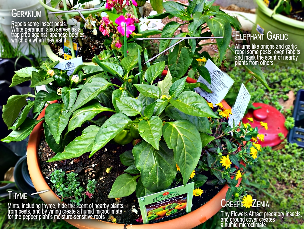 This is an HDR pic of companion plants from my own garden.